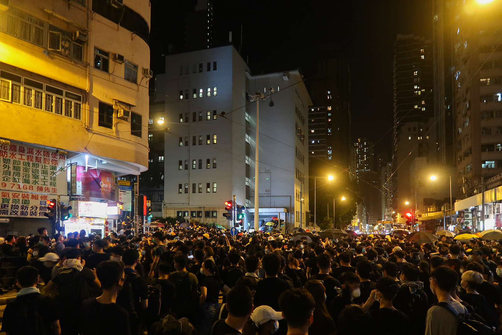 Protesters near Western Police Station